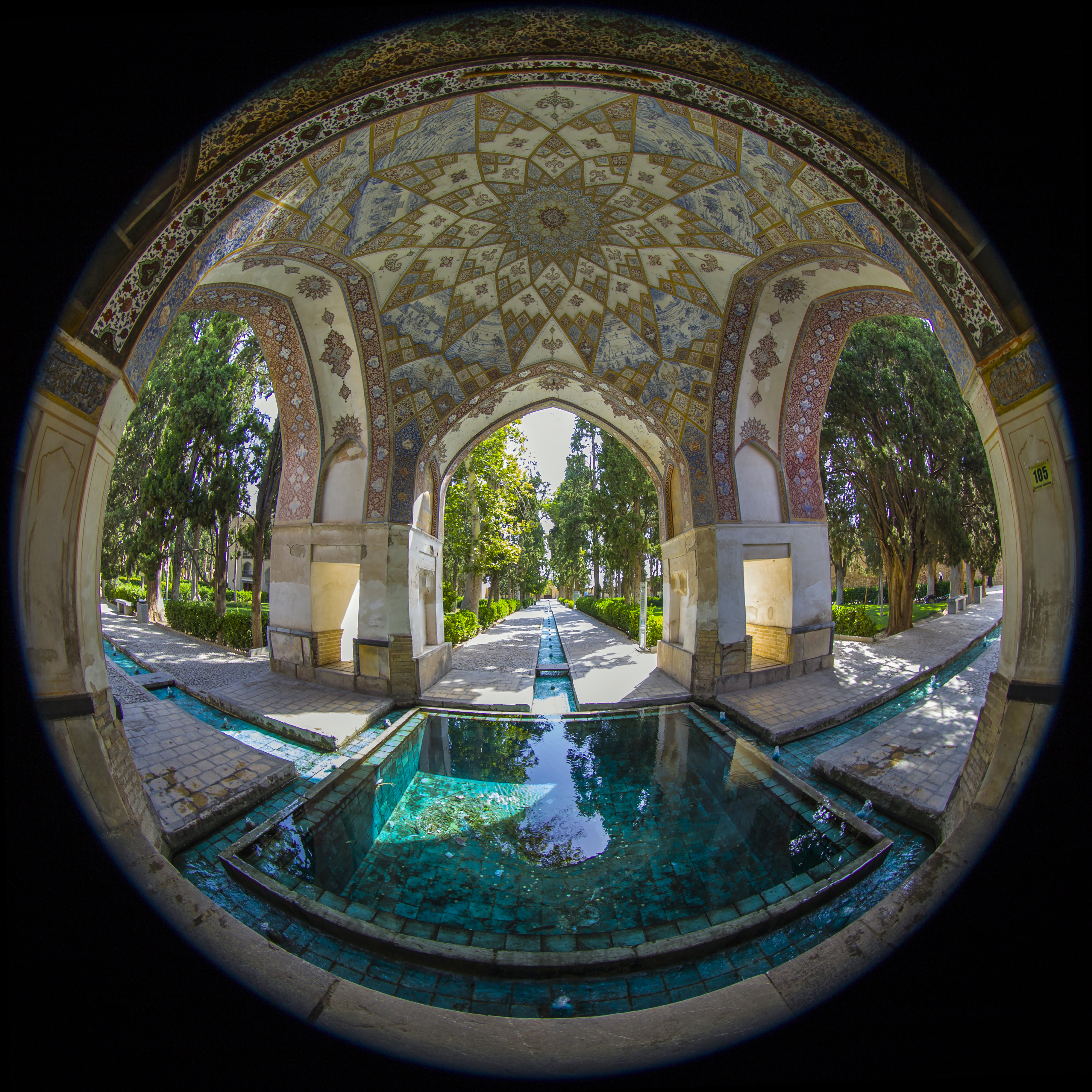 Fin Garden located in Kashan, Iran, is a historical Persian garden. It contains Kashan's Fin Bath, where Amir Kabir, the Qajarid chancellor, was murdered by an assassin sent by King Nasereddin Shah in 1852.